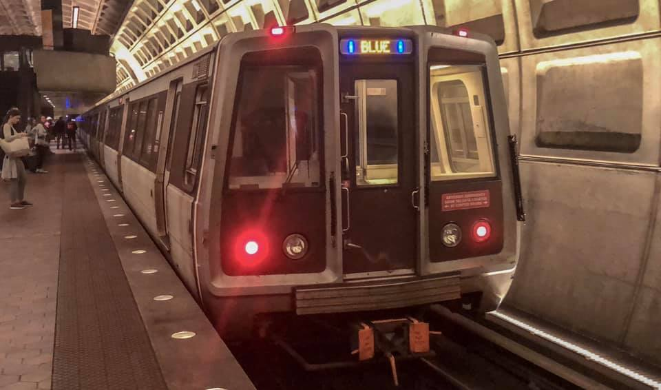 WMATA Rehab Breda 2014 on the Blue Line